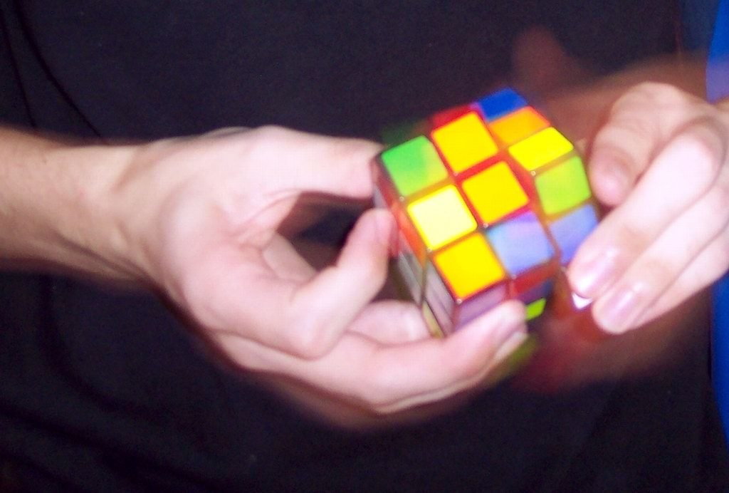 Image of speedsolving a standard 3x3x3 Rubik's Cube (speedcubing). Taken and uploaded to the English Wikipedia by Twilightsojourn on August 16, 2006. Resized by Yuval Y.